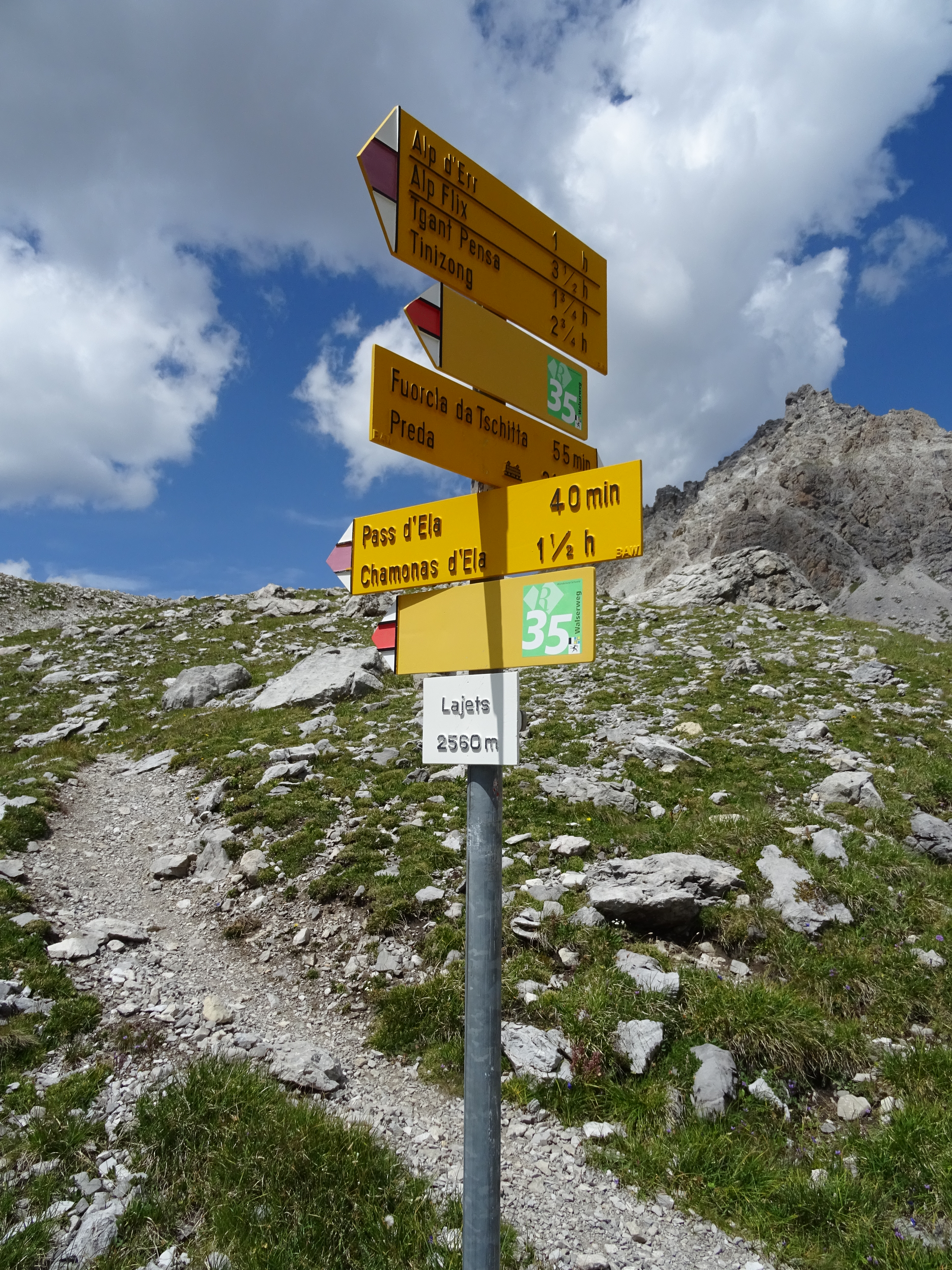 Fingerpost on Laiets (Surses, Grison, Switzerland)